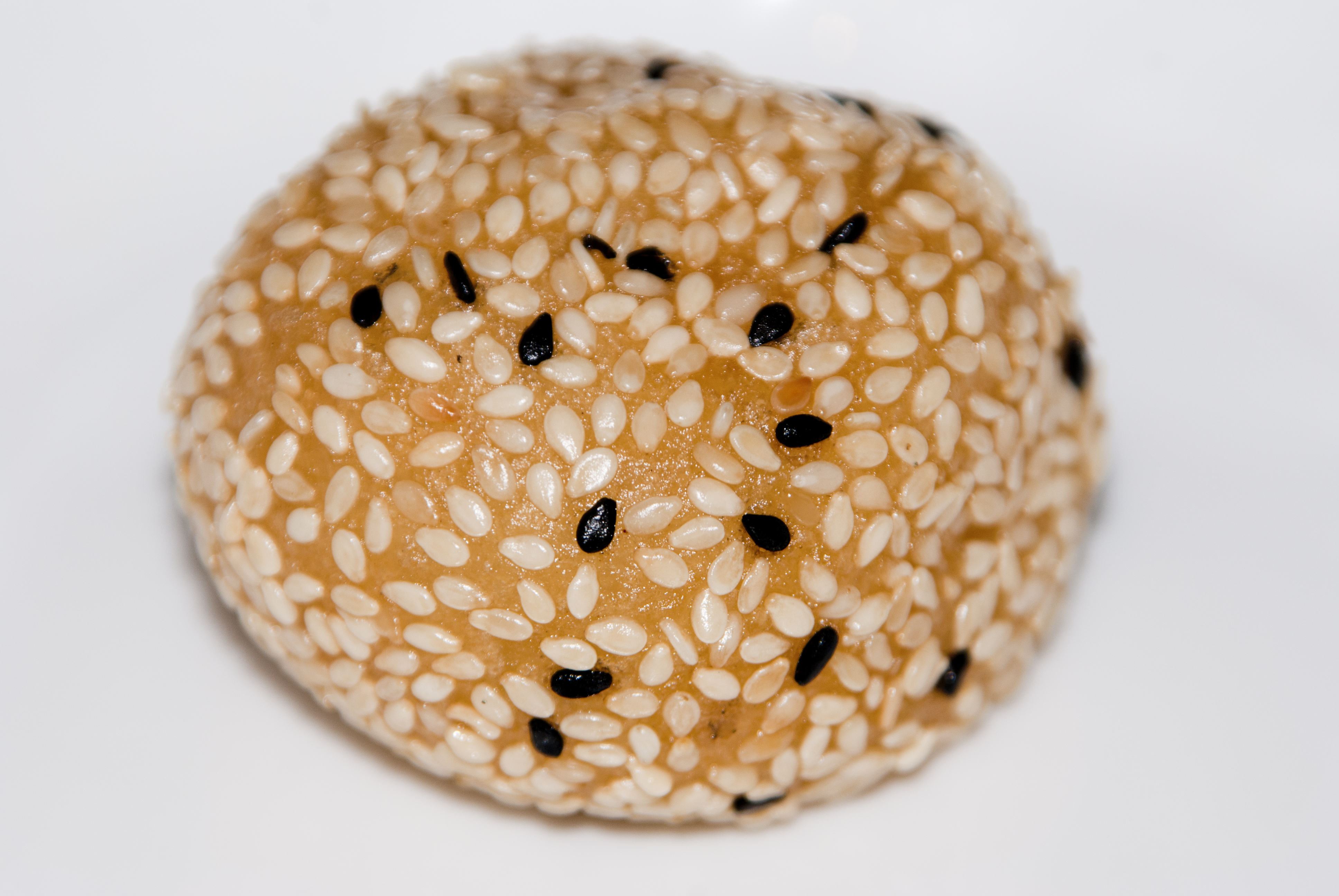 Jiandui with black & white Sesame